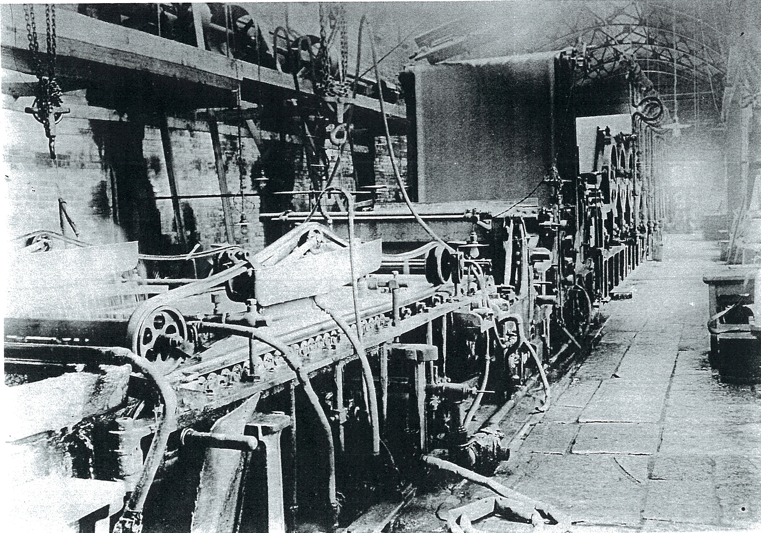 nakanosimaseisi paper machine (1877)